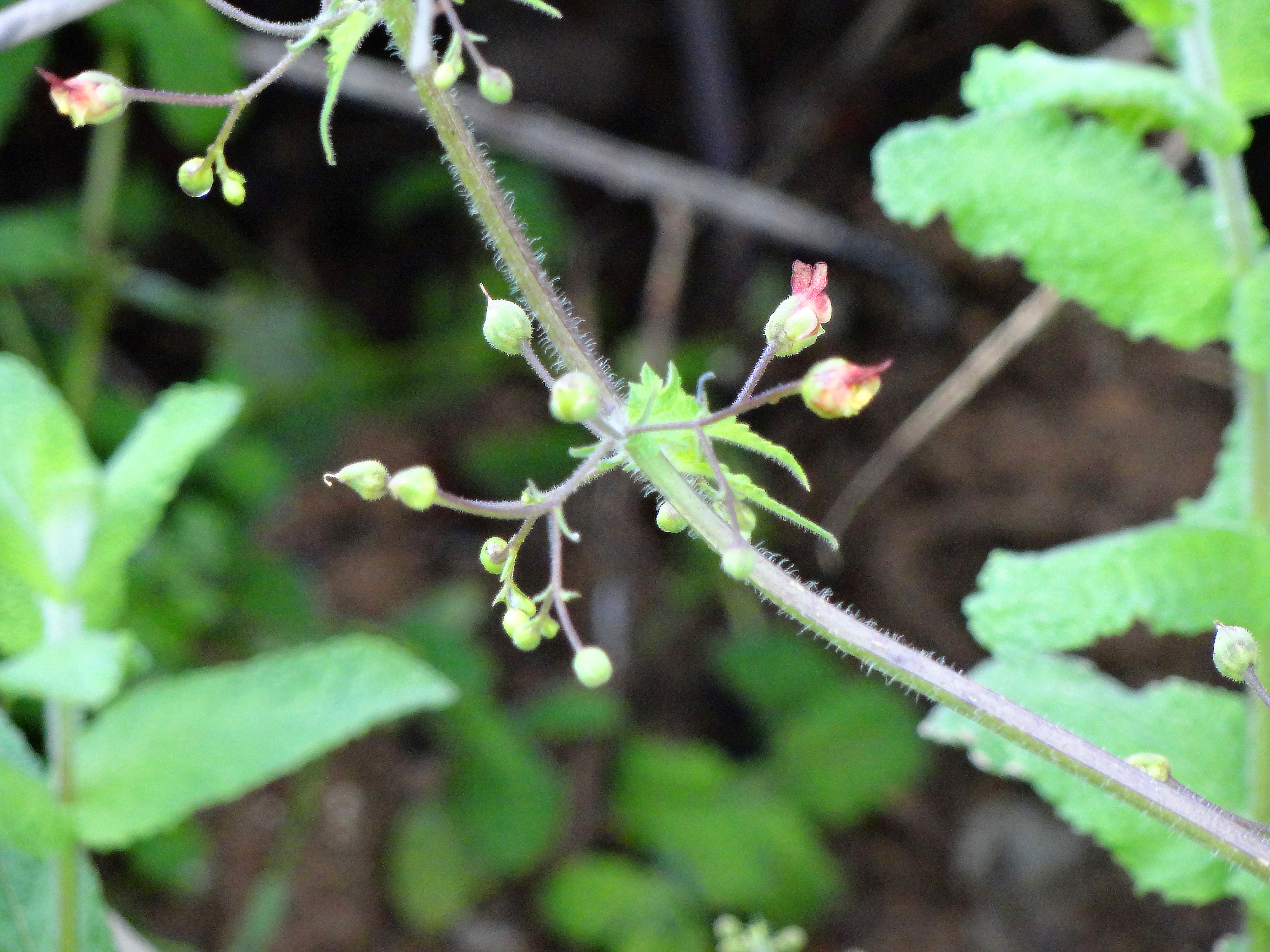 Scrophularia oxyrhyncha flowers stem, "Barquizuelas" Sierra Madrona, Spain